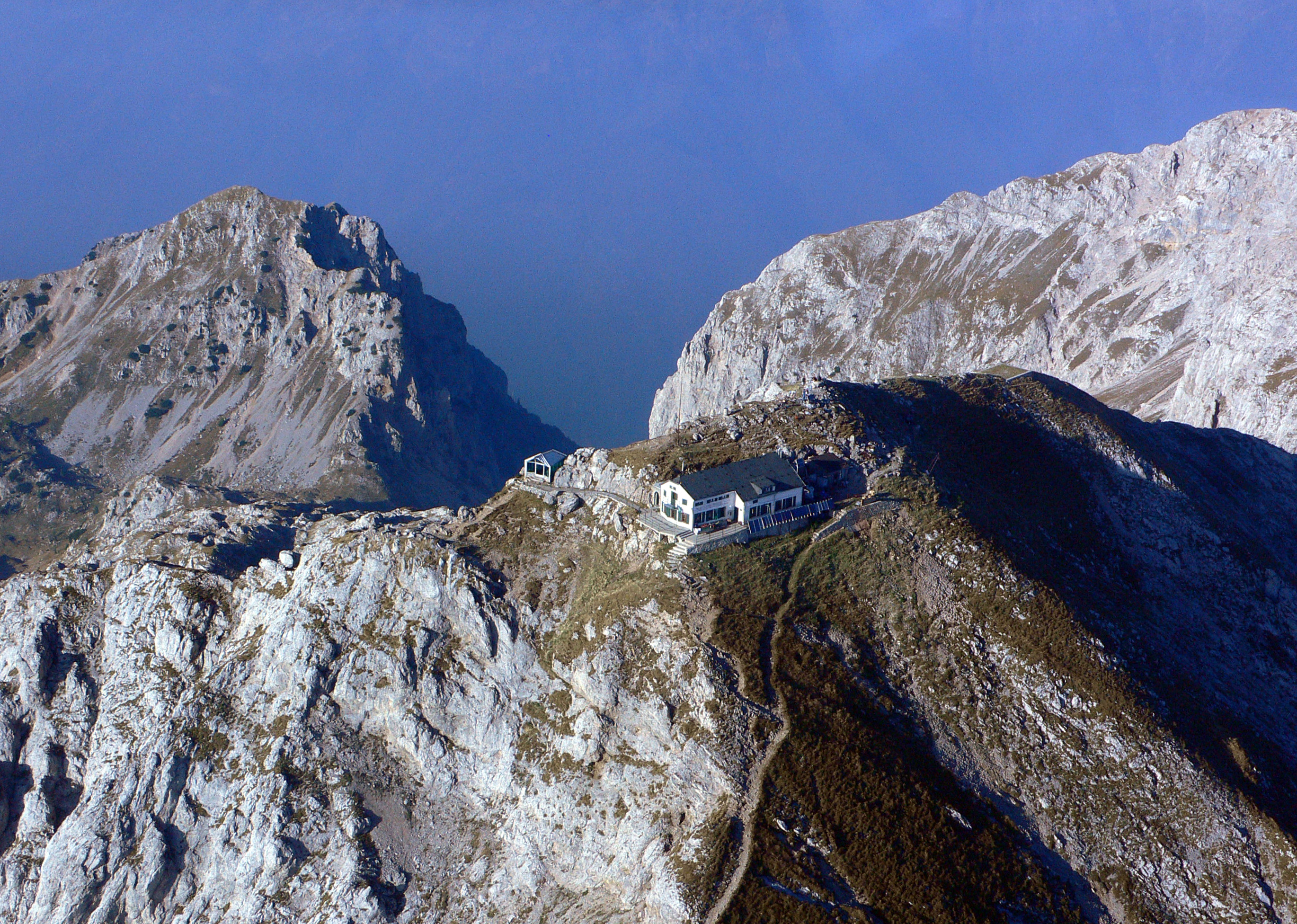 Image of Esino Lario and Grigna. Courtesy Archivio Pietro Pensa, photo by Carlo Maria Pensa.